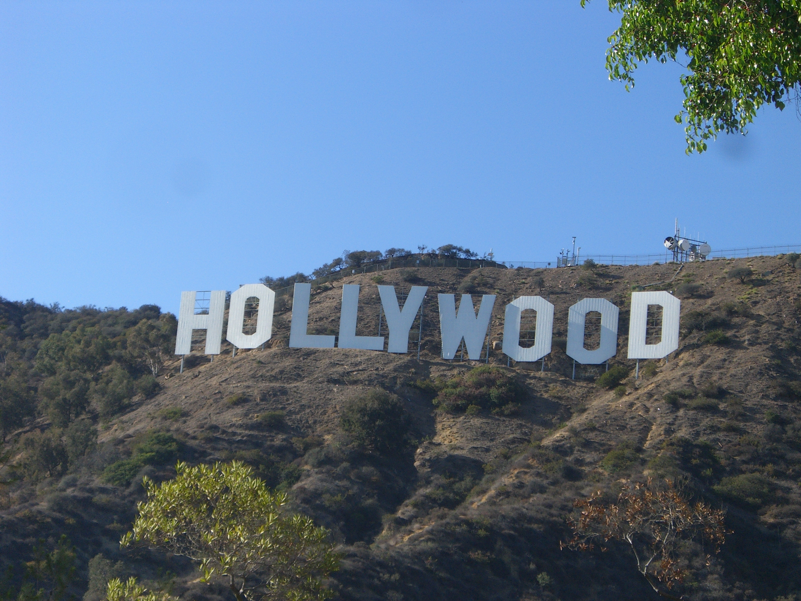 The famous Hollywoodsign